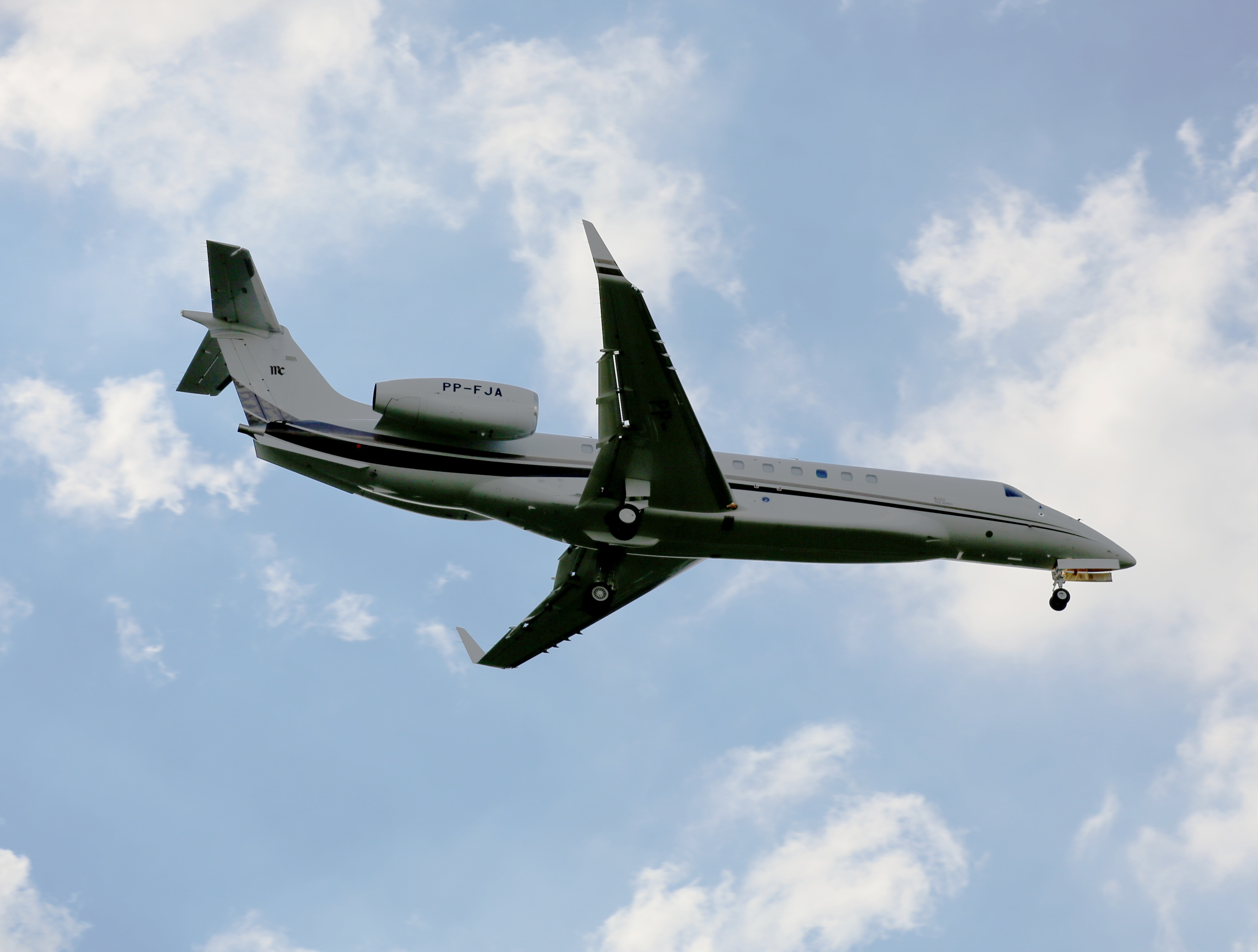 Embraer ERJ-135BJ Legacy 650